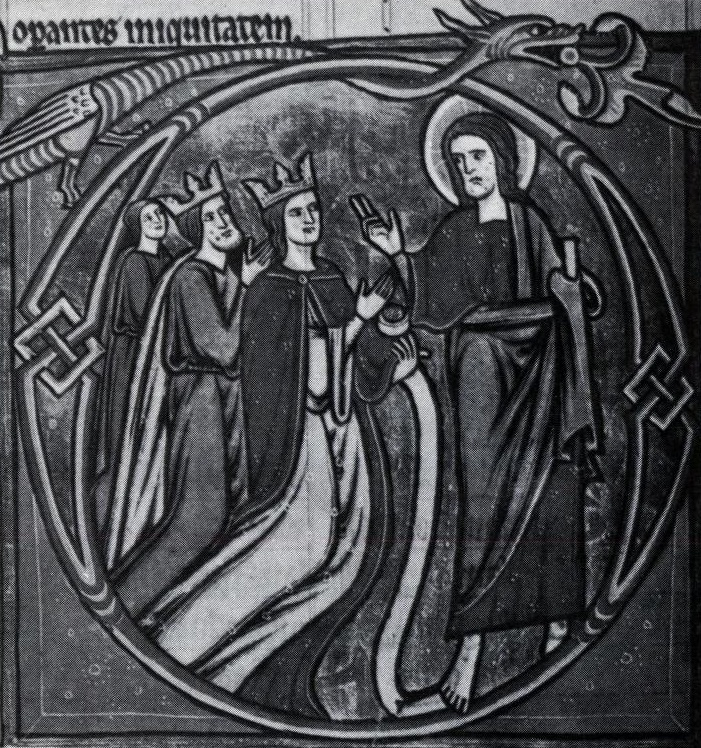 King Haakon IV Haakonsson of Norway, Queen Margrete Skulesdatter, and their son Haakon the Young, from a page in a psalter owned by Margrete.